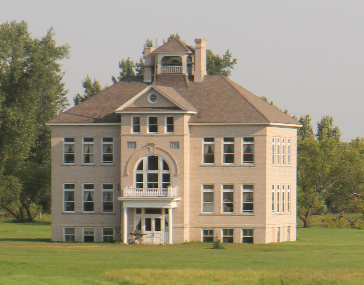 A schoolhouse near Towner, North Dakota.